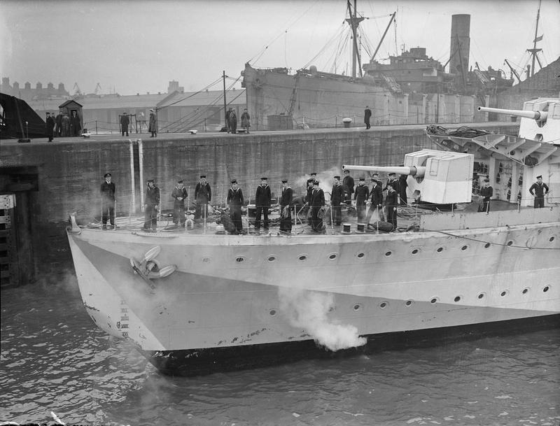 Destruction of U-boat by British Destroyers Hesperus and Vanessa. While Forming Part of a Homeward-bound Convoy Escort the Destroyers Rammed and Sank a German U-boat. the Enemy Was First Sighted and Rammed by HMS Vanessa. Though Badly Damaged It Tried To Escape in Failing Light But Was Overhauled and Finished Off by HMS Hesperus Which Rammed It For the Second Time, Broke It in Two and Sank It. Survivors Were Picked Up. 28 December 1942, Liverpool. HMS HESPERUS entering harbour, showing damage to her bows caused by ramming the U-boat.